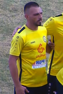 Hamza Abboud playing for Bourj against Shabab Bourj during the 2019-20 Lebanese Premier League